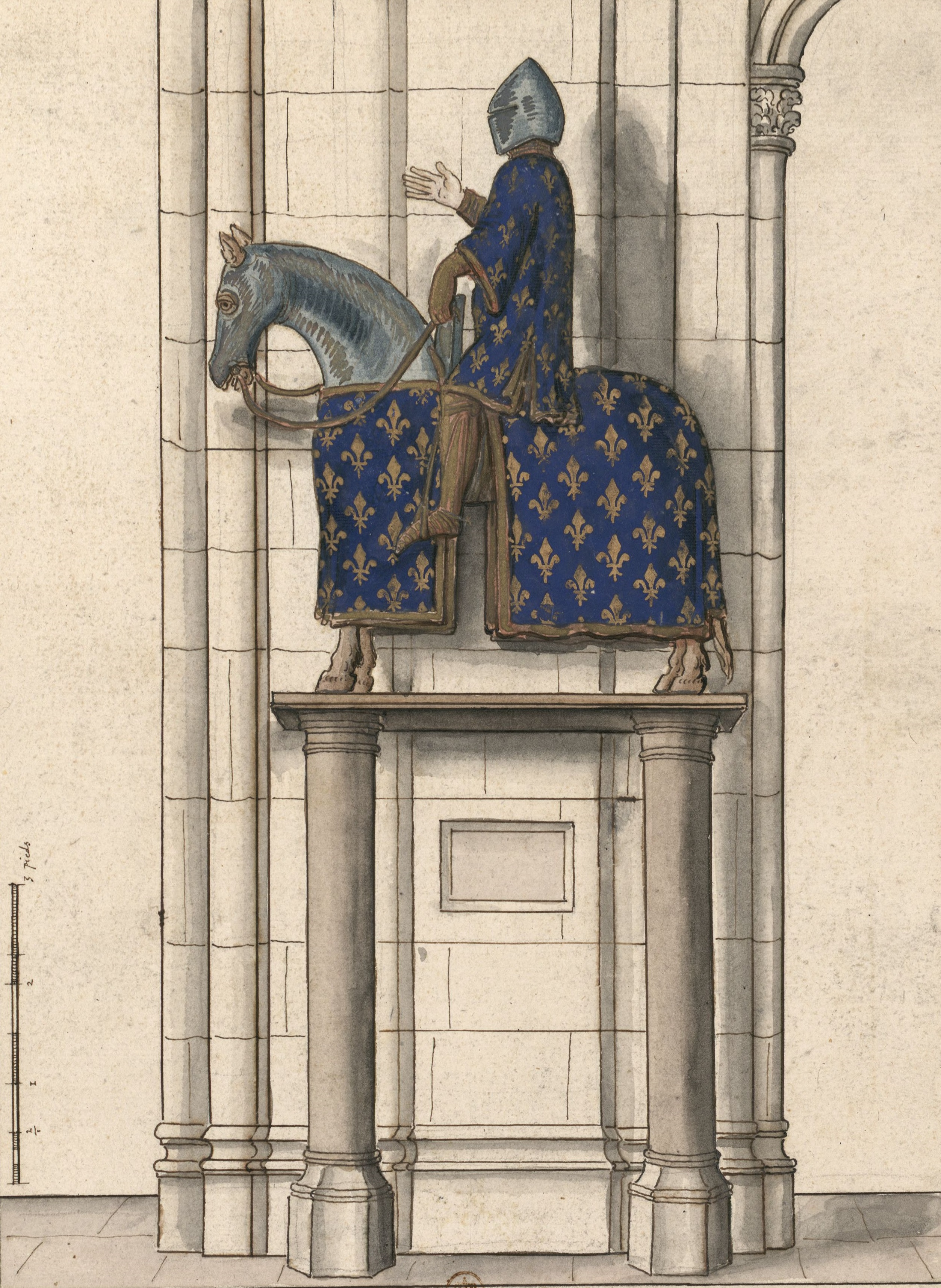 Philip IV (sometime thought to be Philip VI) of France in Cathédrale Notre-Dame de Paris, destroyed between 1792 and 1794.